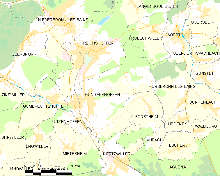 Map of French municipality